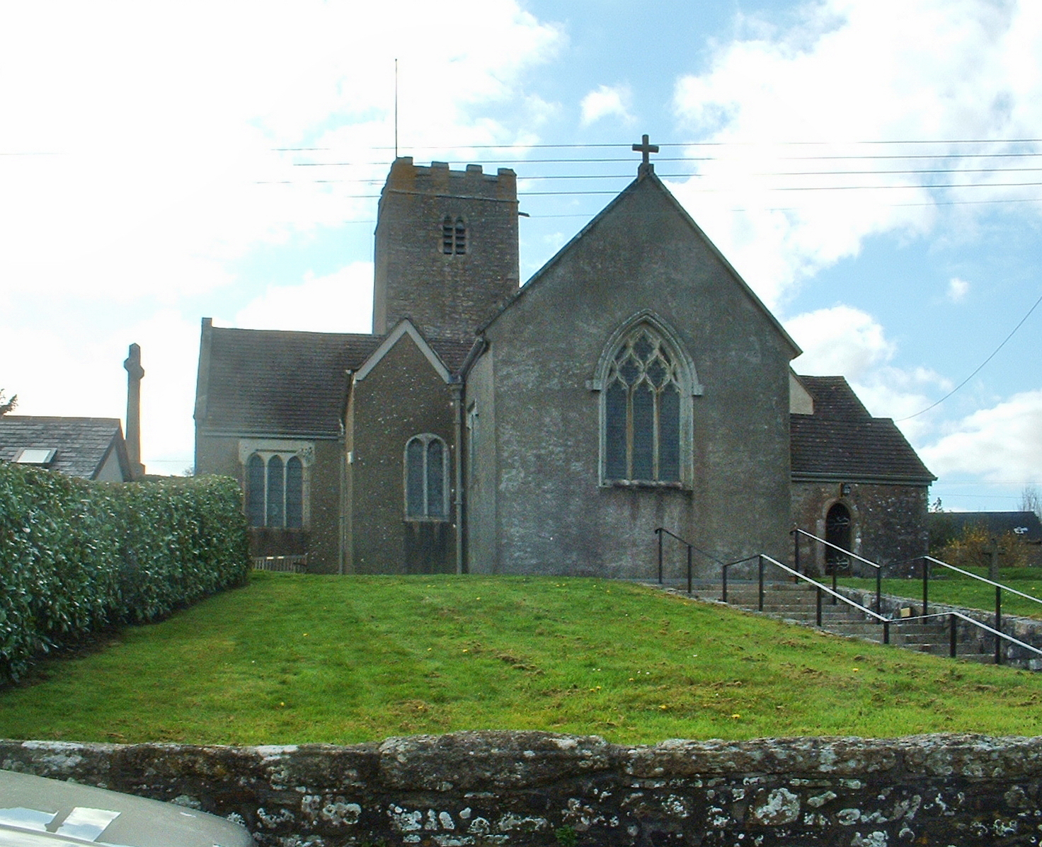 The Church of St Mary, Holne, Devon. Taken by Necrothesp, 17 April 2006.